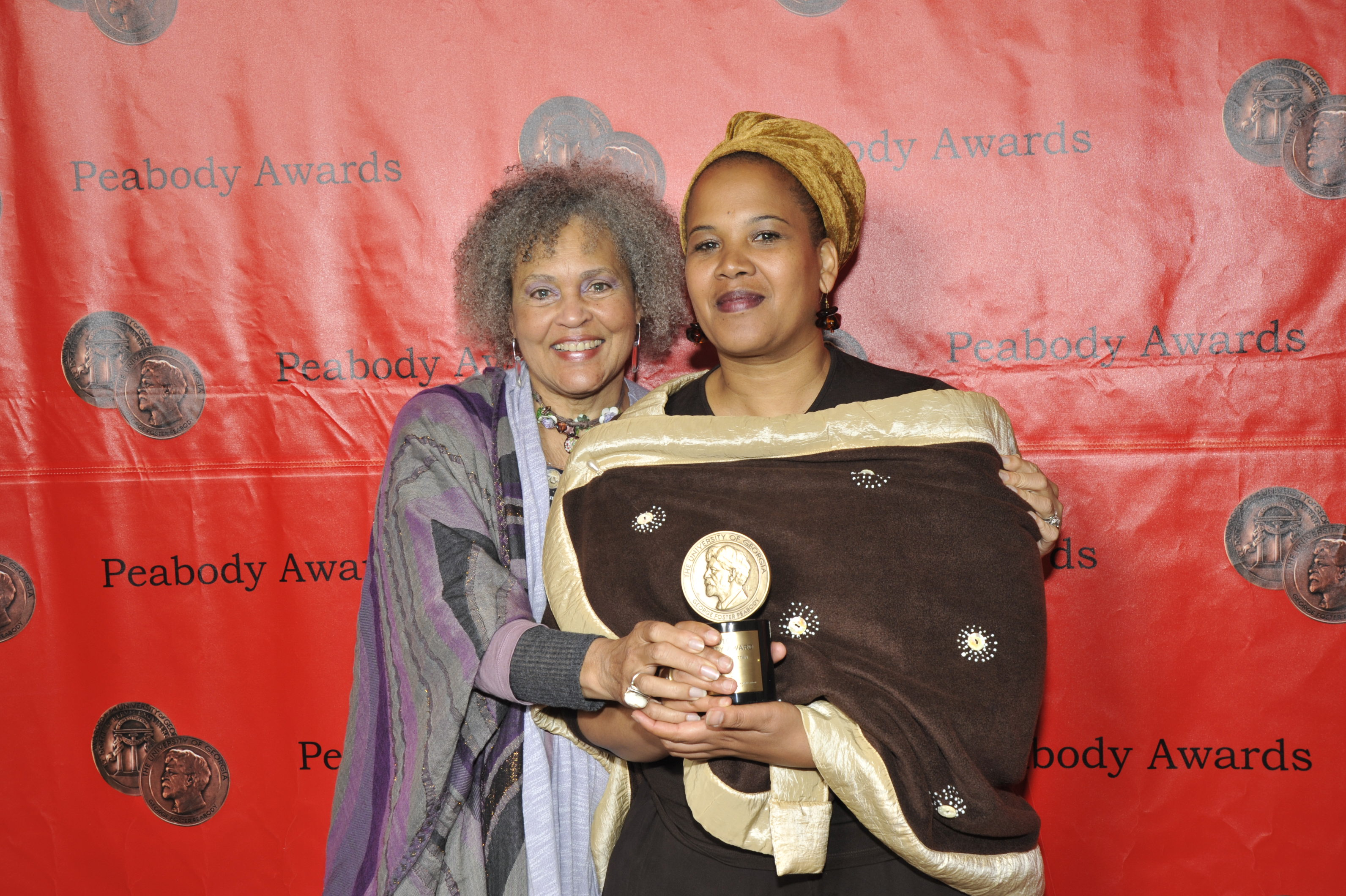 PHOTO CREDIT: ANDERS KRUSBERG / PEABODY AWARDS Charlayne Hunter-Gault and Xoliswa Sithole 70th Annual Peabody Awards Luncheon Waldorf=Astoria Hotel May 23, 2011